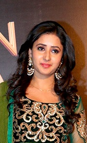 Sana at Colors Golden Petal Awards 2016